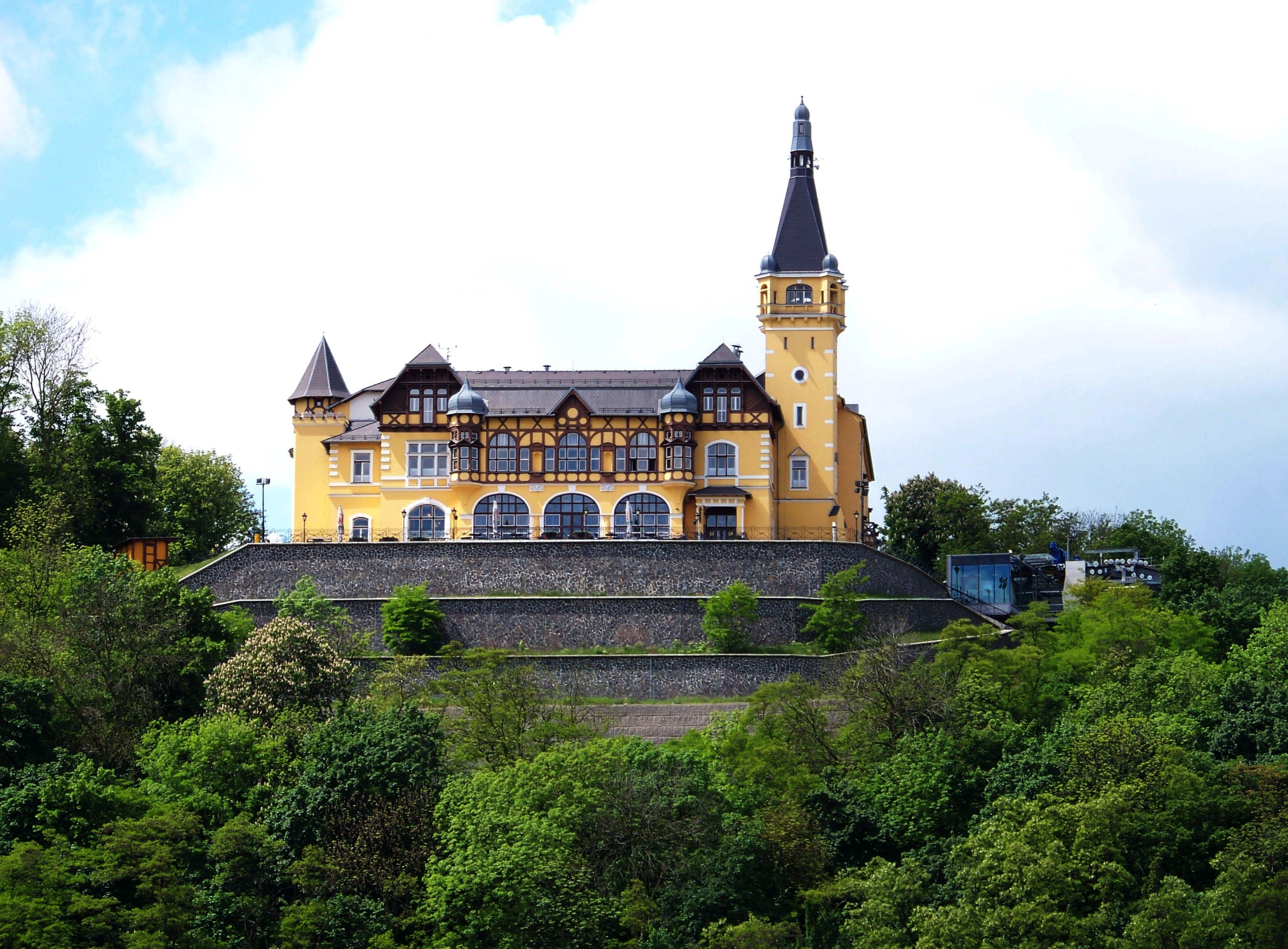 Ústí nad Labem-center, Ústí nad Labem District, Ústí nad Labem Region, Czech Republic. Větruše, seen from Střekov across the Elbe.